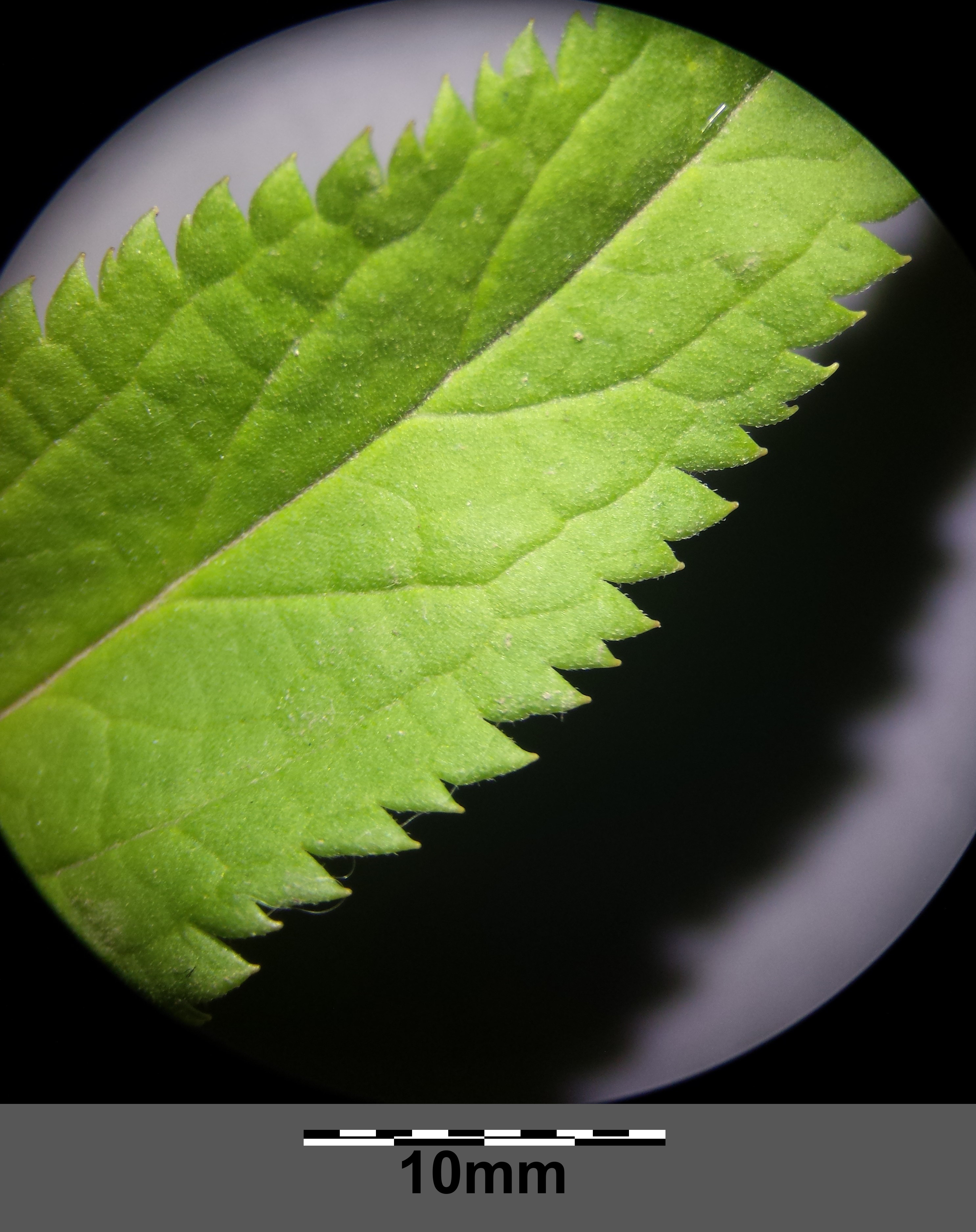 Top side of leaf Taxonym: Veronica maritima ss Fischer et al. EfÖLS 2008 ISBN 978-3-85474-187-9 Location: pond near Michelstetten, district Mistelbach, Lower Austria - ca. 250 m a.s.l. Habitat: shore of a pond